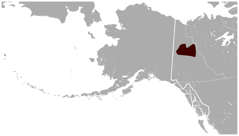 Geographical distribution of the Ogilvie Mountains Collared Lemming Dicrostonyx nunatakensis. The map was created using the Generic Mapping Tools, GMT, version 5.1.1.